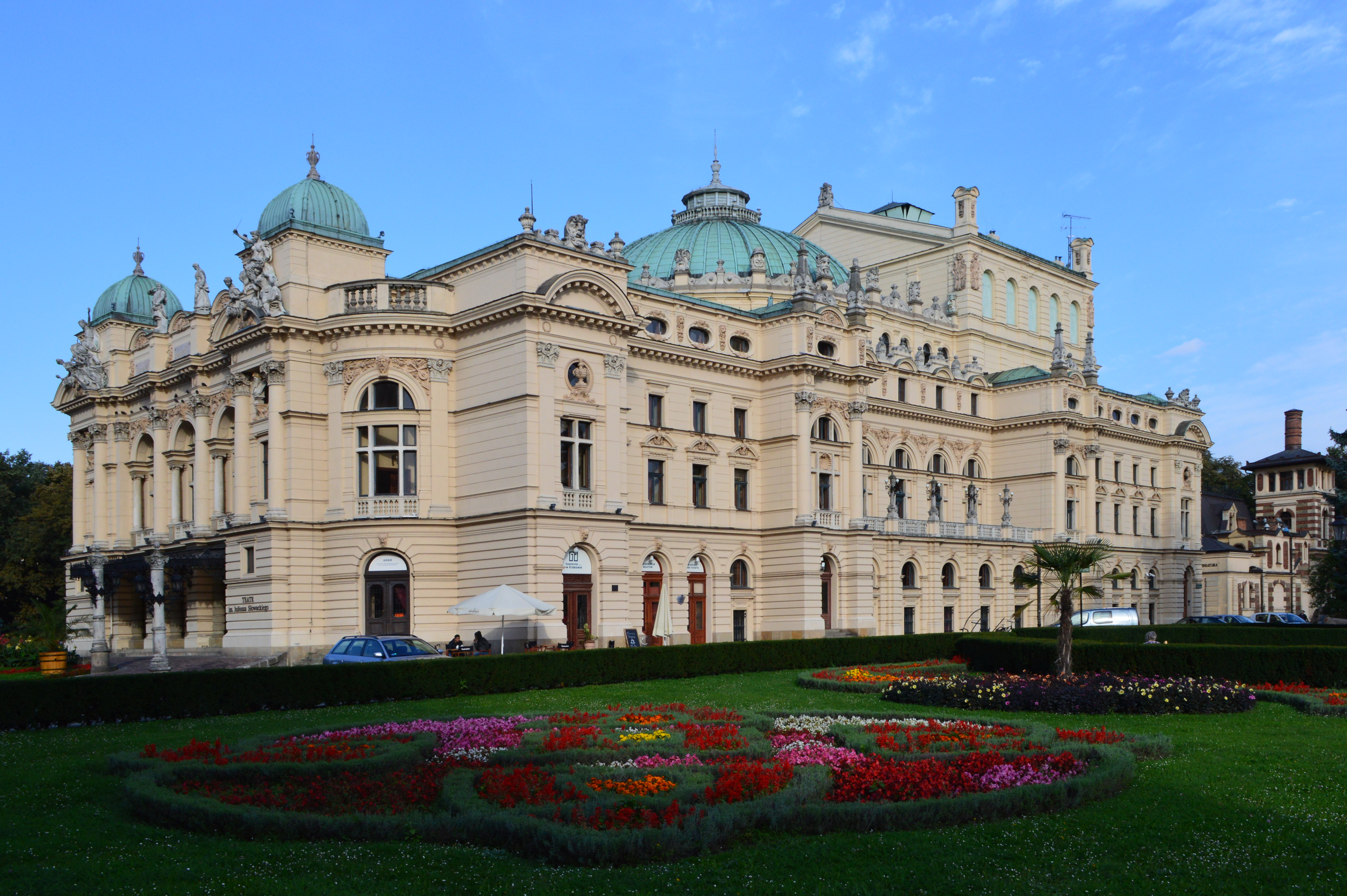 Juliusz Słowacki Theatre in Kraków, Poland, erected in 1893, was modeled after some of the best European Baroque theatres such as the Paris Opera designed by Charles Garnier, and named after Polish poet Juliusz Słowacki in 1909. The Theatre became the birthplace of the theatrical concept of the Young Poland movement and was closely related to the rediscovery of Romantic drama as well as the premiere productions of plays by Polish national playwright Stanisław Wyspiański.The Scotch Mist Gallery contains many photographs of historic buildings, monuments and memorials of Poland.